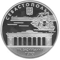 Coin of Ukraine